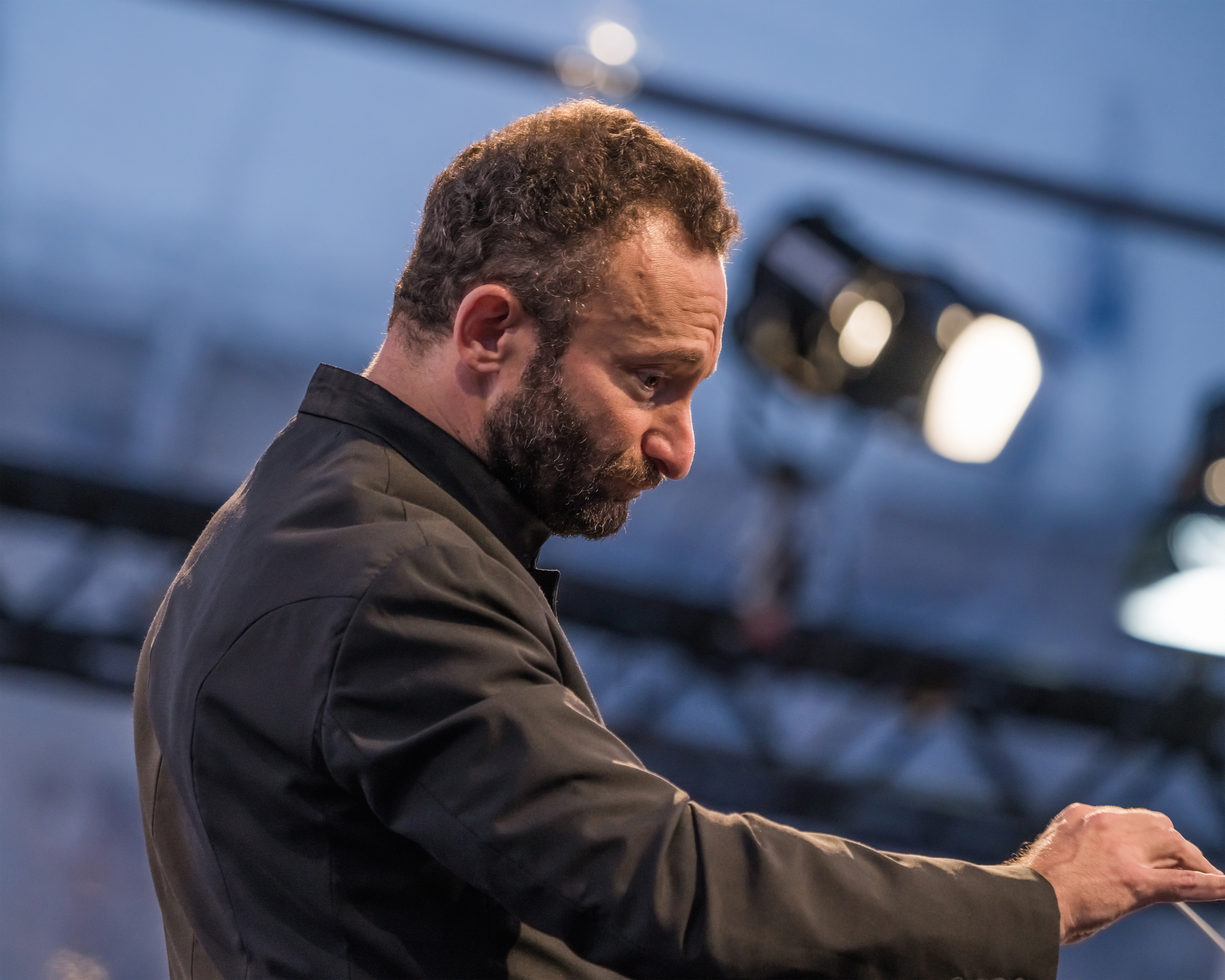 On 24 August 2019 the Berlin Philharmonics gave an open air concert at Brandenburg Gate in Berlin, with an audience of nearly 35,000 people. The conductor was Kirill Petrenko from Russia. The orchestra performed Beethoven's Symphony No. 9 D minor Op. 125.